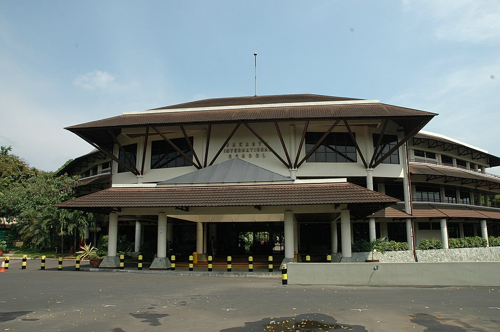 An image of Jakarta International School